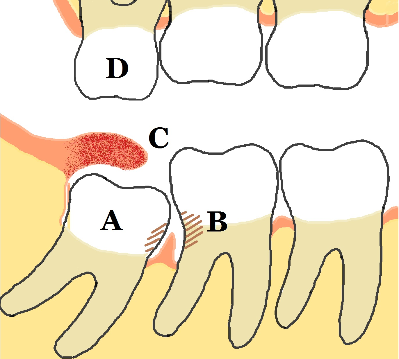 Diagram showing mesio-impacted mandibular third molar tooth, with associated dental caries and pericoronitis. Captions are (A) Mesio-impacted, partially erupted mandibular third molar; (B) Dental caries and periodontal defects o both the third and second molars, caused by food packing and poor access to oral hygiene; (C) Inflamed operculum covering partially erupted lower third molar, with accumulation of food debris and bacteria underneath; (D) The upper third molar has over-erupted due lack of opposing tooth contact, and may start to traumatically occlude into the operculum over the lower third molar.